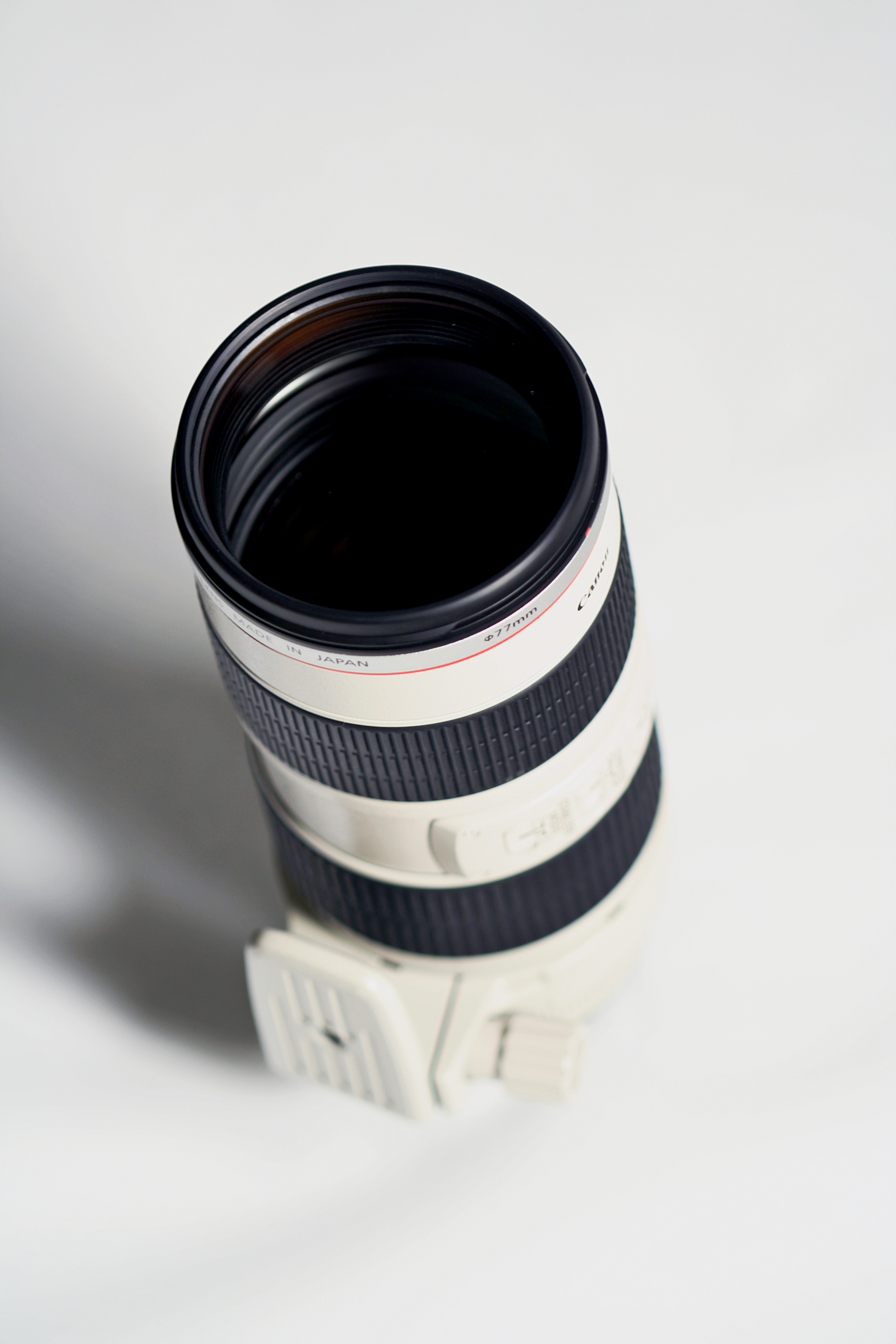 Canon EF 70-200mm lens is a telephoto zoom lens. The new addition to the family....